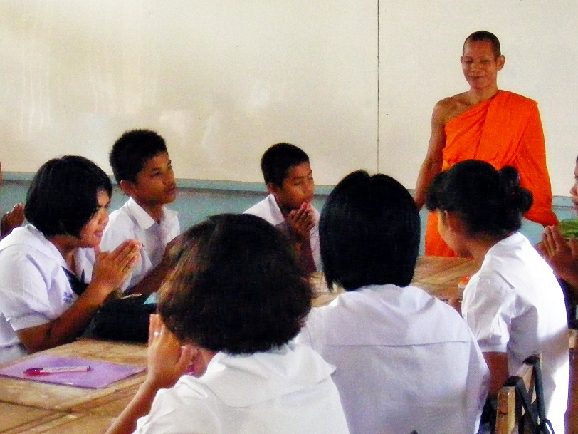 student in Ban Hat Suea Ten School in Wat Pa Kanun, Khung Taphao subdistrict, Mueang Uttaradit, Uttaradit Province, Thailand.